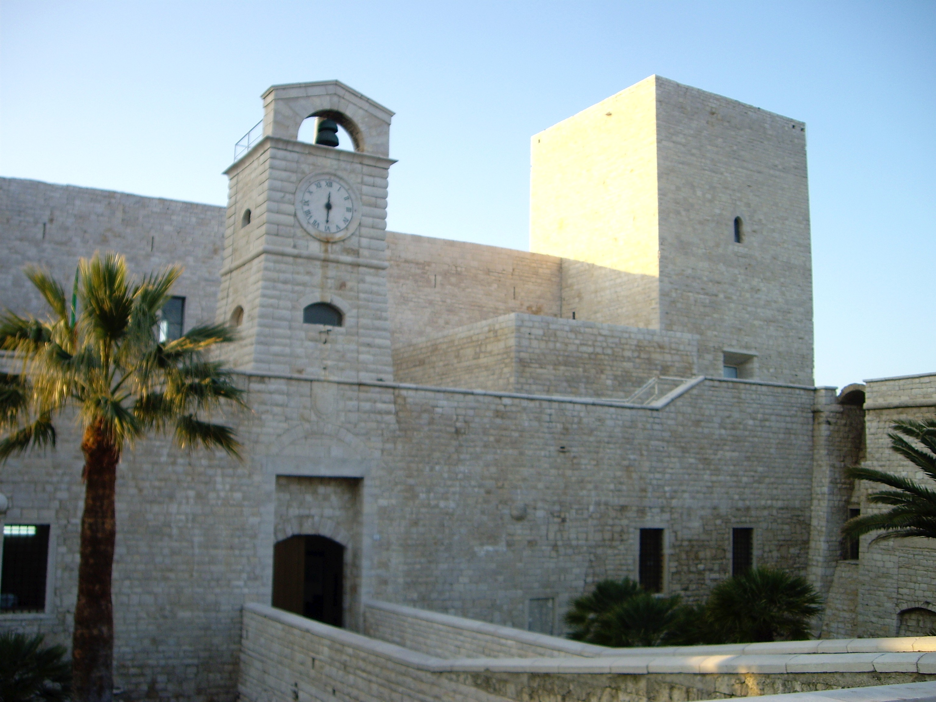 Castle of Trani, central tower.